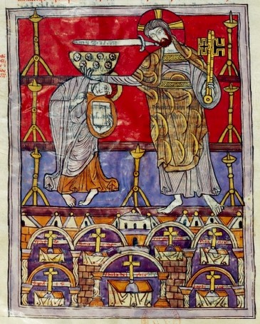 The Navarra Beatus , fol. 12v